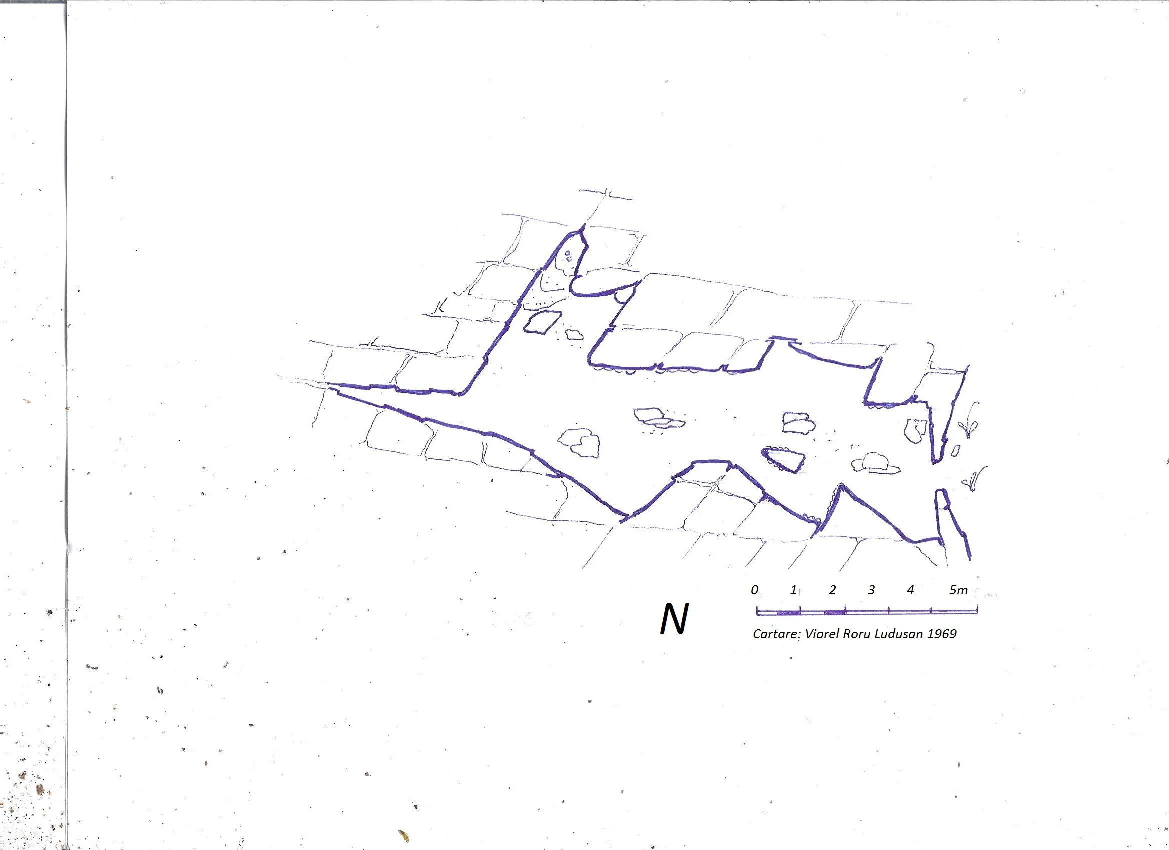 Harta pesterii realizata in 1969, revizuita in 1979